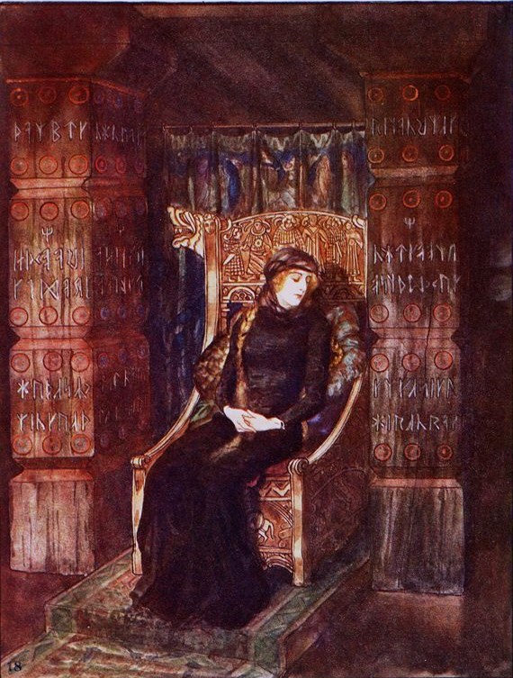 Illustration by Czech painter Artuš Scheiner for Julius Zeyer’s Román o věrném přátelastvá Amise a Amila